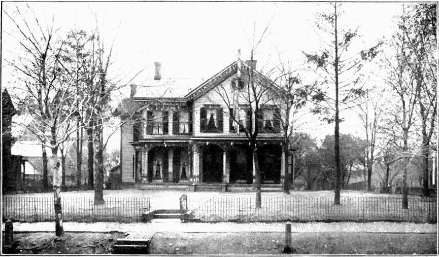 Home of United States President William McKinley in Canton, Ohio